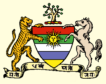 Coat of Arms of the Indian Princely state of Jaipur